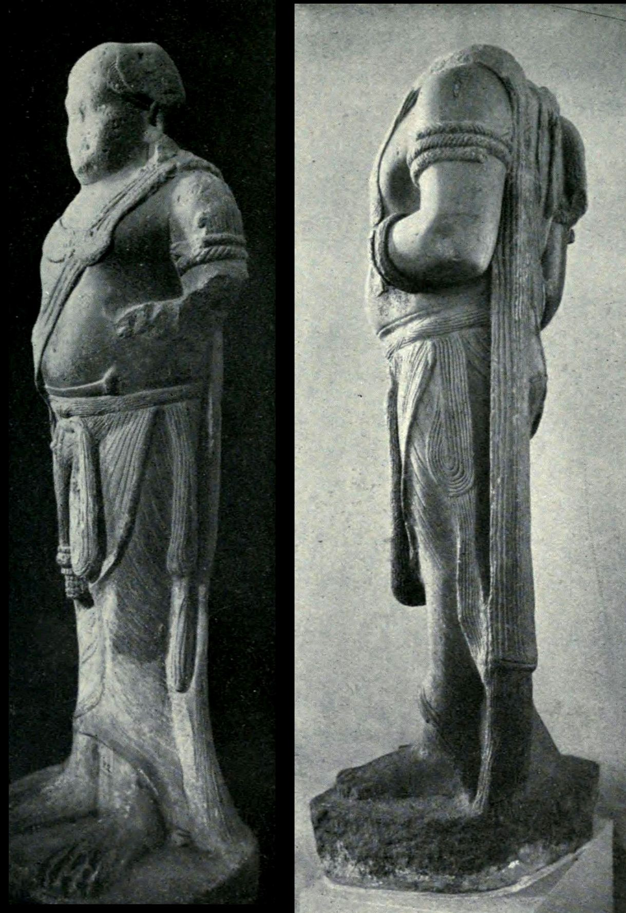 Two Yakshas from Patna/ Pataliputra. See also drawings with details of the inscriptions on each statue explaining they are "Yashas": Right statue: inscription "Yakhe Sanatananda" or perhaps "Yakhe Bharata". Left statue: inscription "Yakhe Achusatigika" or perhaps "Yakhe Sanigika". Report of a tour in Bihar and Bengal, p.3 [1].